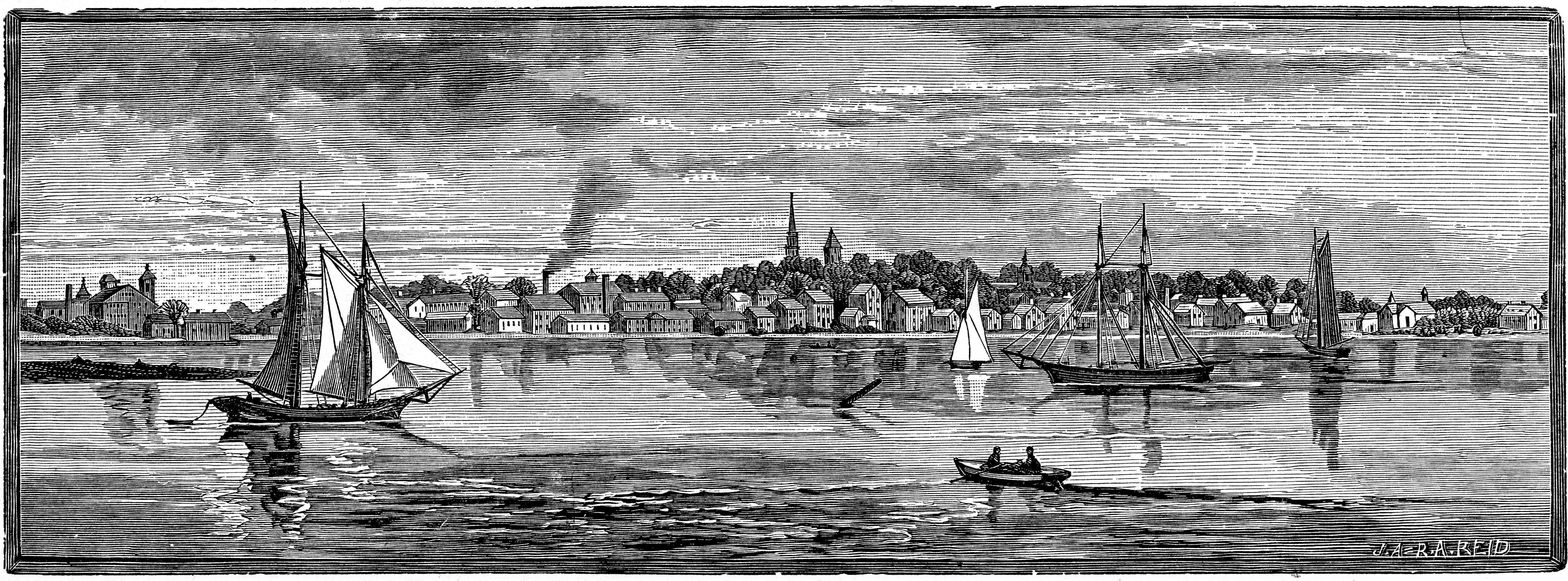 Warren, from the Beacon.Engraving from The Providence Plantations for 250 Years, Welcome Arnold Greene (1886). Page 410